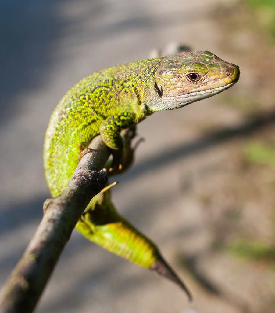 Ocellated lizard (timon lepidus / lacerta lepida)